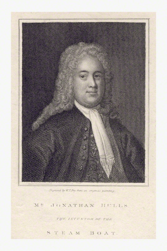 Portrait of Jonathan Hulls (baptised 1699–1758), English inventor.